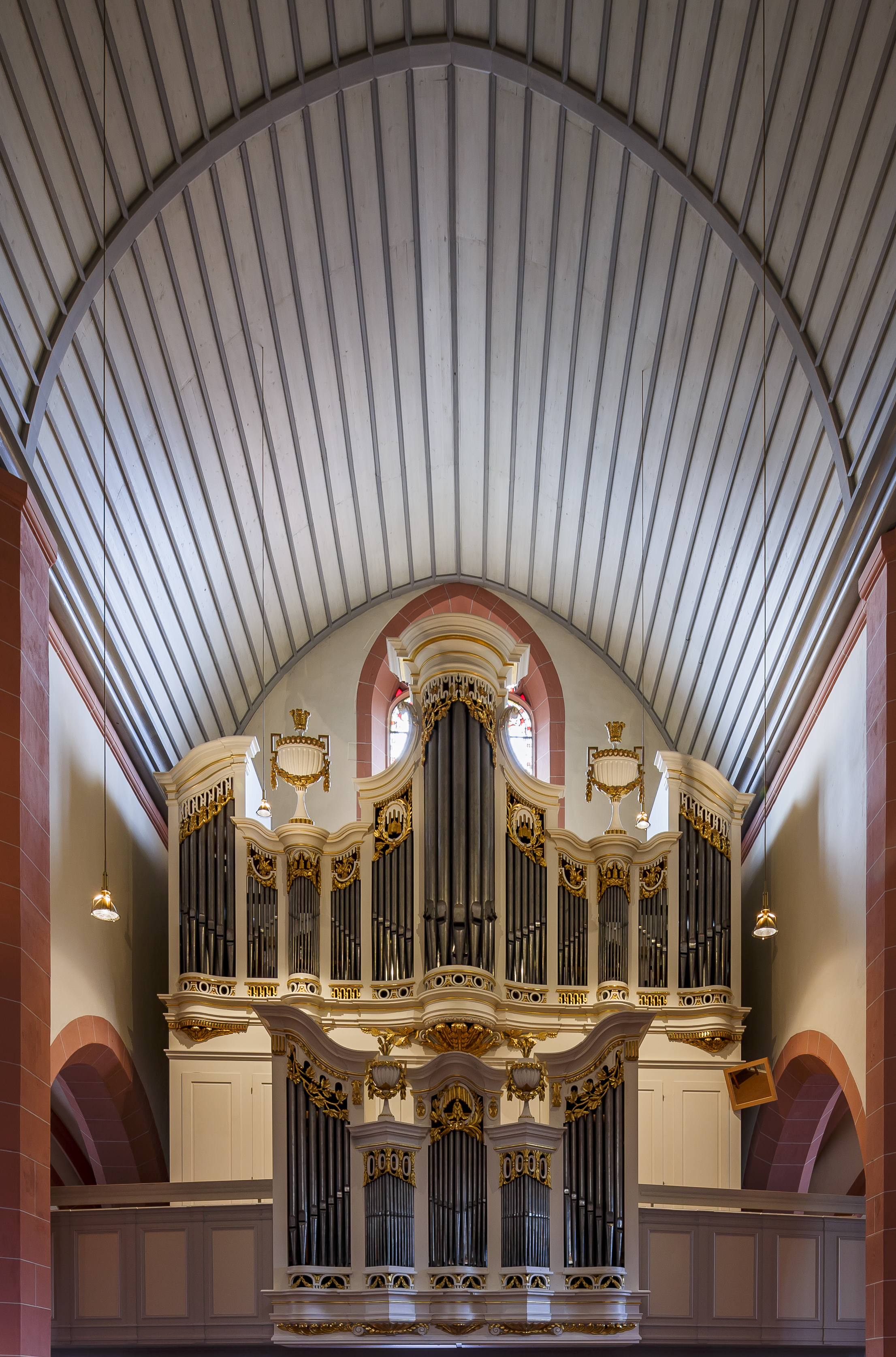 Michelstadt, Germany: Organ of Stadtkirche Michelstadt